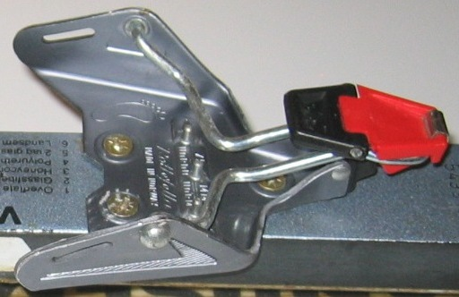 Cross-country NN-type Rottefella binding